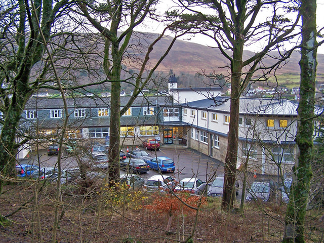 Portree Hospital A view from the path to The Lump. The hospital is an NHS Highland community hospital with 13 beds, opened in 1964. The main direct patient services provided are acute and general medical, rehabilitation, outpatient services and Accident and Emergency/Casualty.